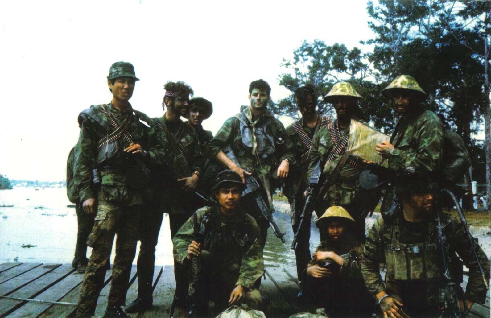 Navy SEALS X-Ray Platoon. Taken on a dock near Ben Tre in Southeast Vietnam. The Seal in the center of the group is Lt. Michael Collins. Lt. Collins was killed in action on March 4th, 1971.